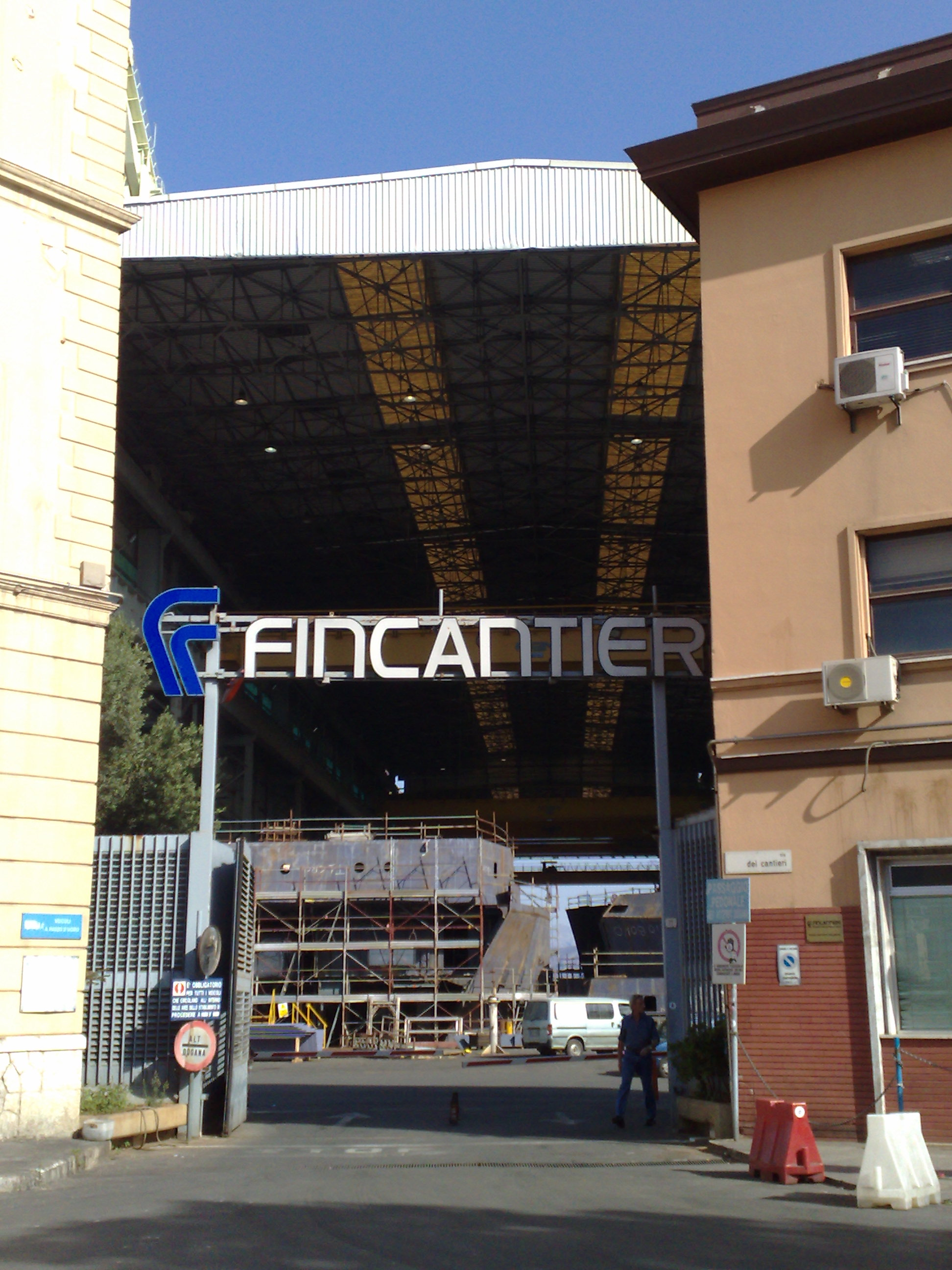 Ship building in Palermo